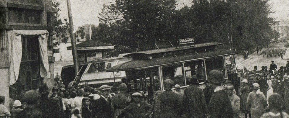 1920 tram accident in Vyborg, Finland. 5 dead and several injured.